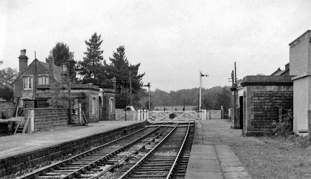 Barbon Station. Northward view, towards Low Gill and Tebay; Low Gill - Ingleton - Clapham branch. Line closed to passengers 1/2/54; but Goods trains ran until 2/3/64 and the line was retained as a diversionary route until at least 12/64. When the station was photographed it was fairly intact and double-track well-maintained.